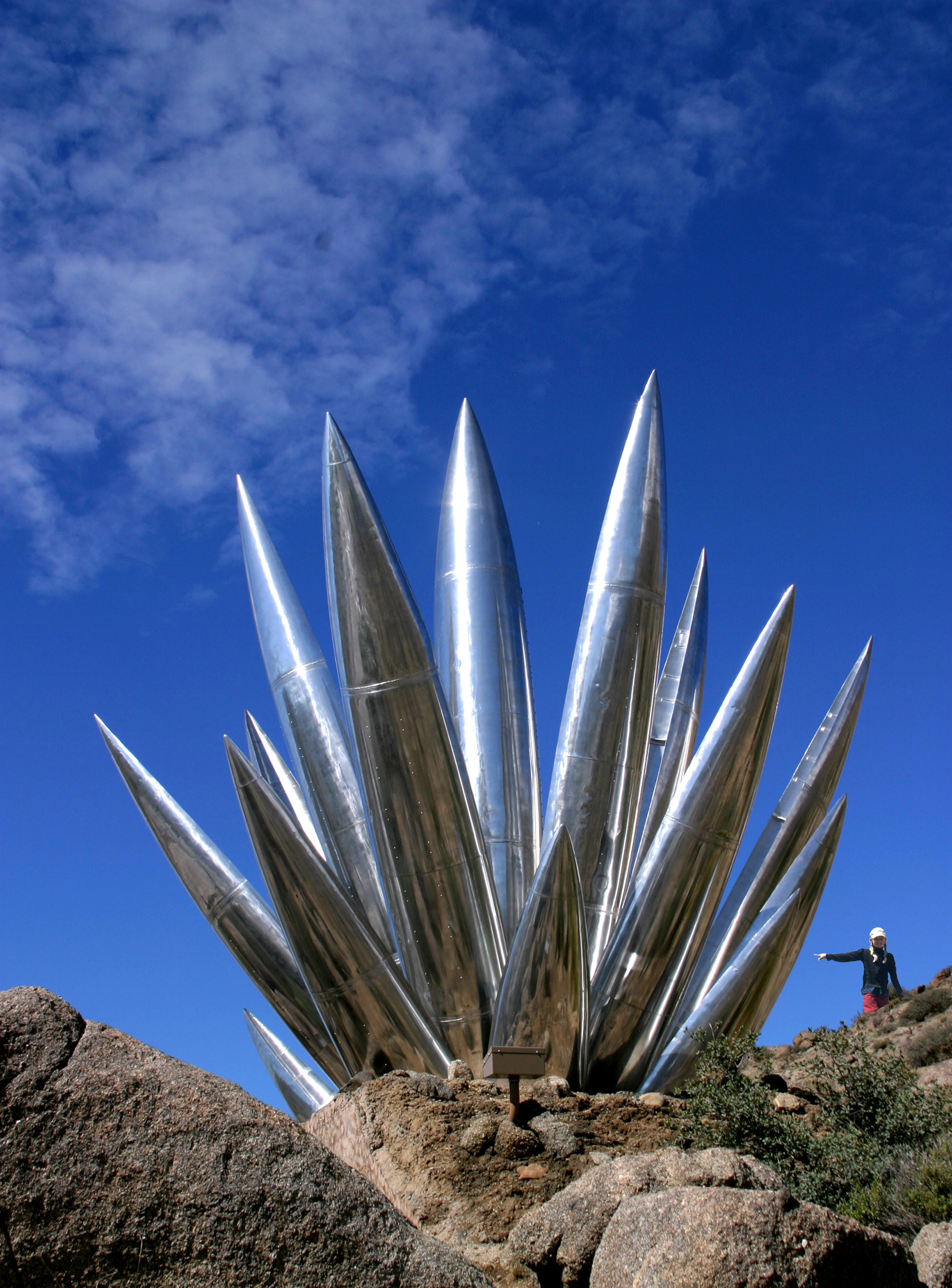 Aluminum Yucca was made from salvaged hollow aluminum fuel tanks from F-16 military aircraft. The hollow forms were sliced vertically to resemble the scooped shape of the Datil Yucca leaf, which is native to the area. At night, the sculpture is illuminated by a slow-moving, solar-powered color wheel that recreates the hues of the Albuquerque desert landscape. The exaggerated scale celebrates the romance and nostalgia of western Road Culture in the 20th century - evident all along Route 66 in wigwam-shaped hotels, five-foot Mexican sombreros and giant cowboy boots. It is located on I-40 in Tijeras Canyon, Route 66 gateway to Albuquerque.